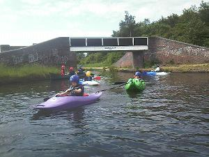 Canoeists on the canal at Brownhills photographed by myself (from a canoe, no less!!) on June 7 2008